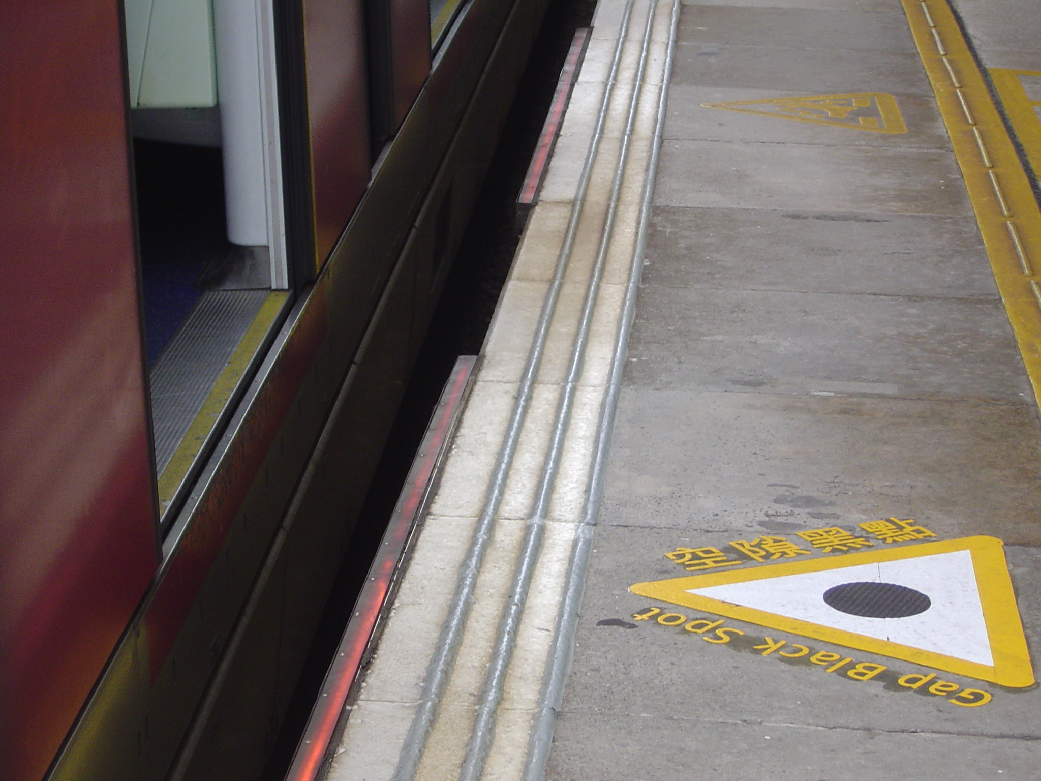 The platform gap at University MTR station, Hong Kong. Note the "gap black spot warning".